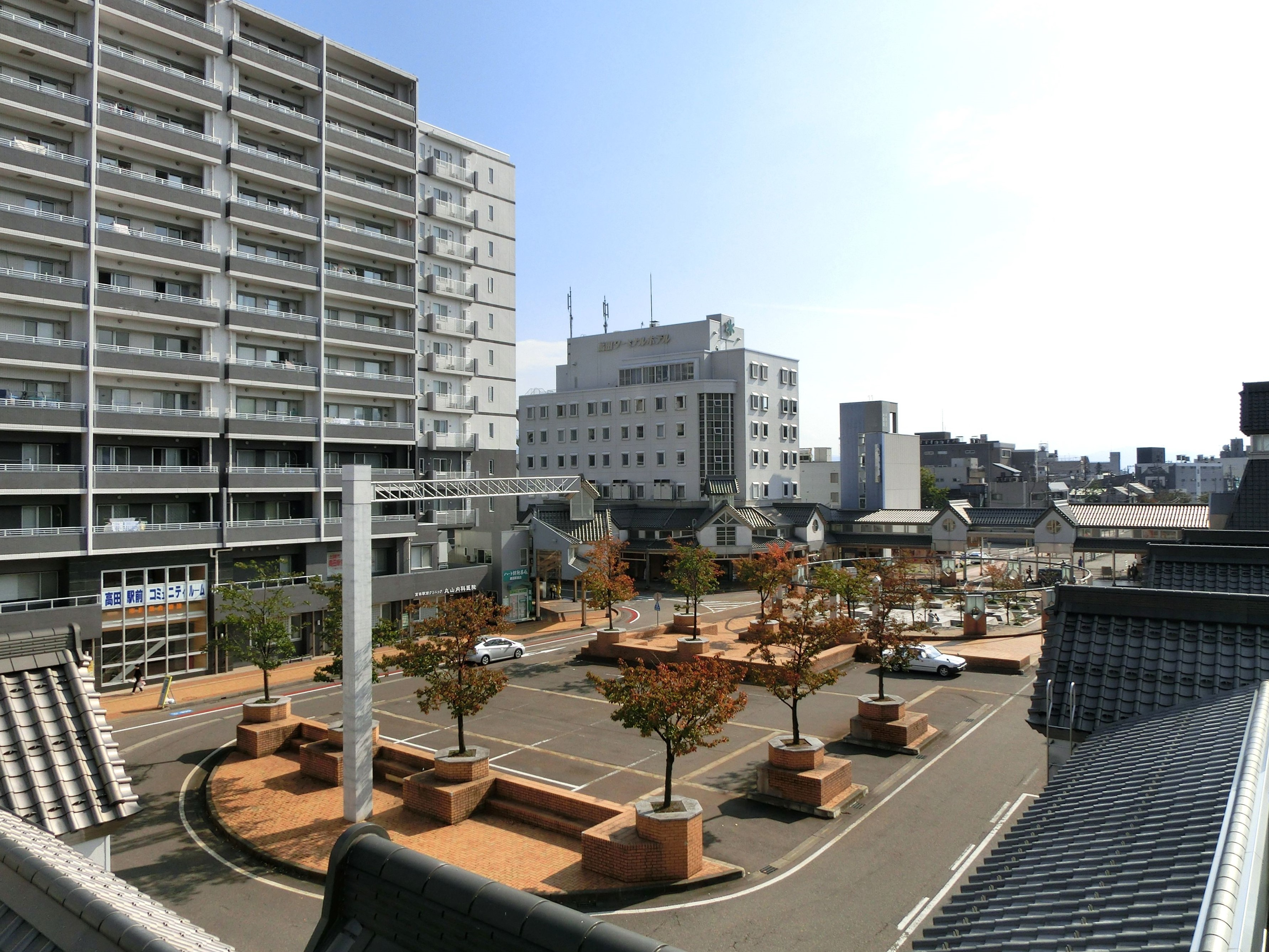 The station forecourt at Takada Station in Niigata Prefecture, Japan